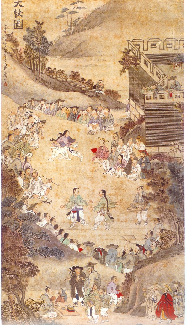 Dae-Kwae-Do (대쾌도œ–). Comment: Ssireum (top) and Taekkyon (bottom) during some event.